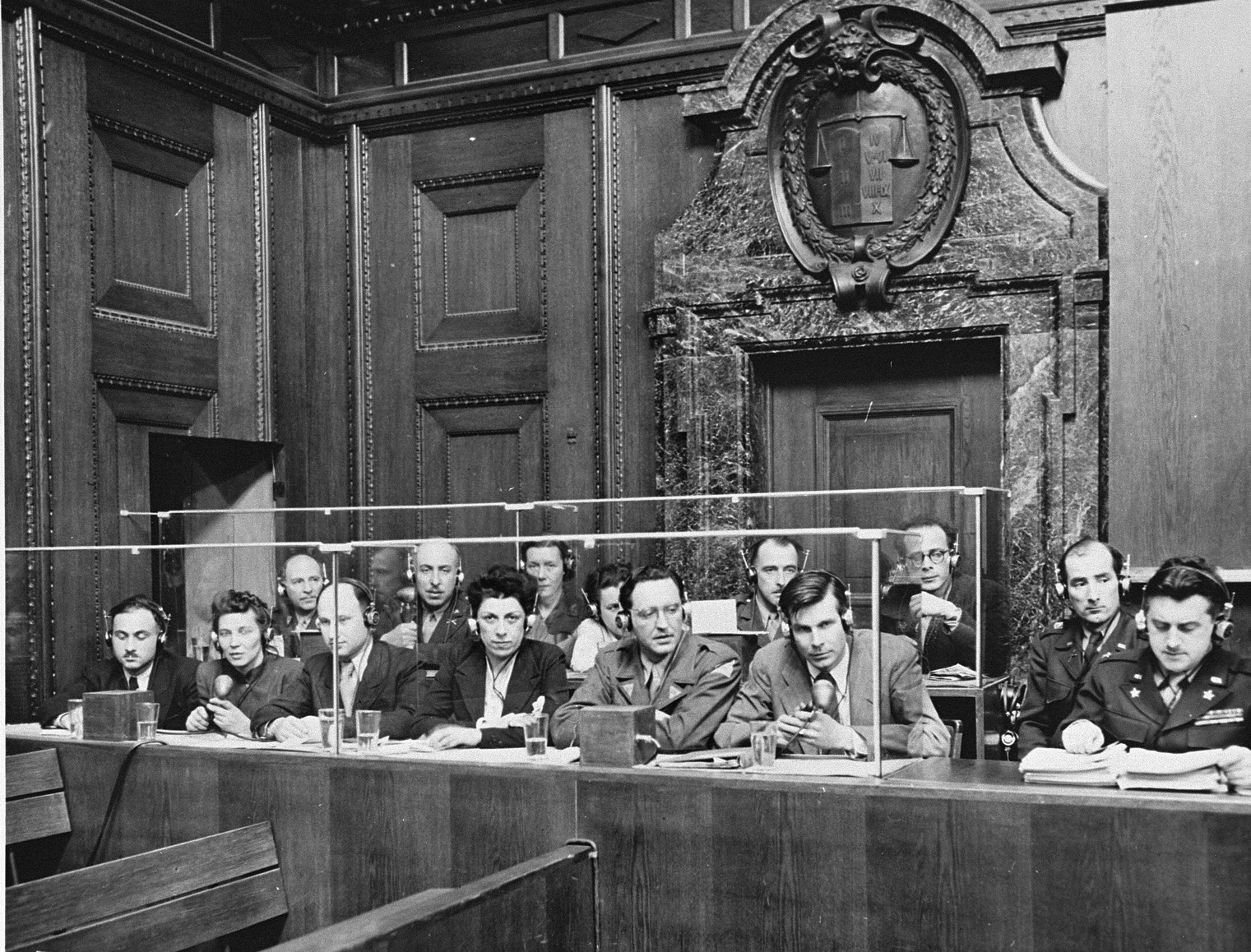 Nuremberg International Military Tribunal: interpreters section